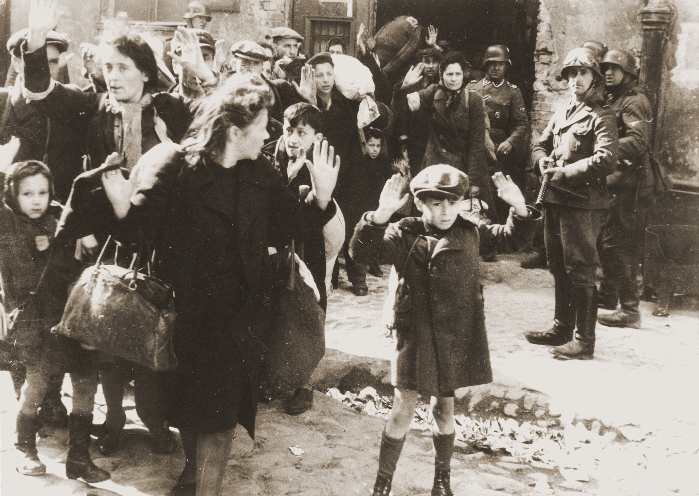 Warsaw Ghetto Uprising (Poland) - Photo from Jürgen Stroop Report to Heinrich Himmler from May 1943. One of the most famous pictures of World War II.